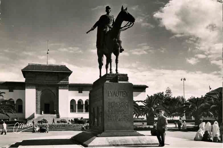 Equestrian statue of Hubert Lyautey, colonial period after 1938, Administrative Square (now Muhammad V Square), Casablanca Morocco